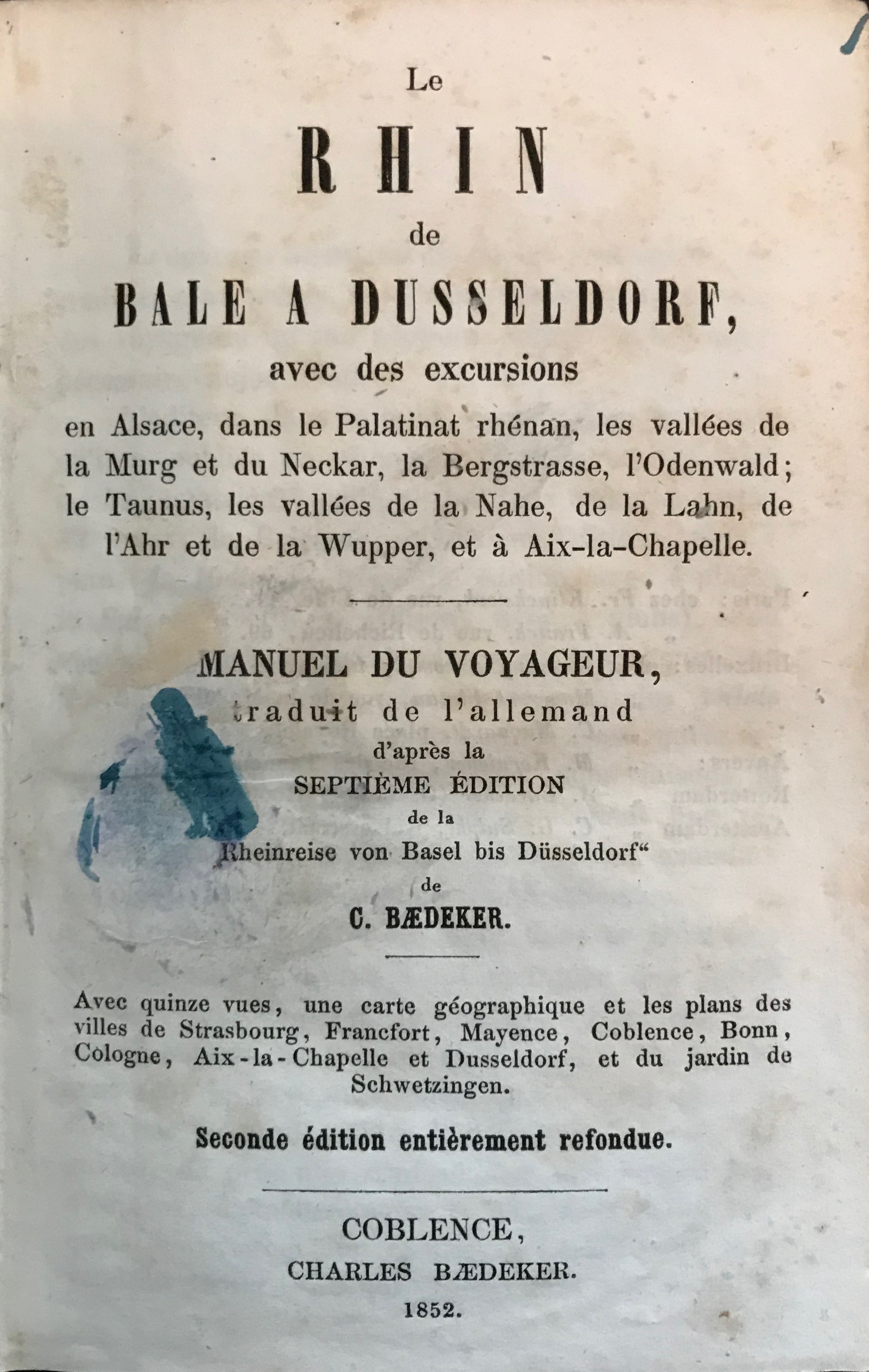 title page of 1852 Baedeker travel guide of the Rhine (french language, Le Rhin), F 3